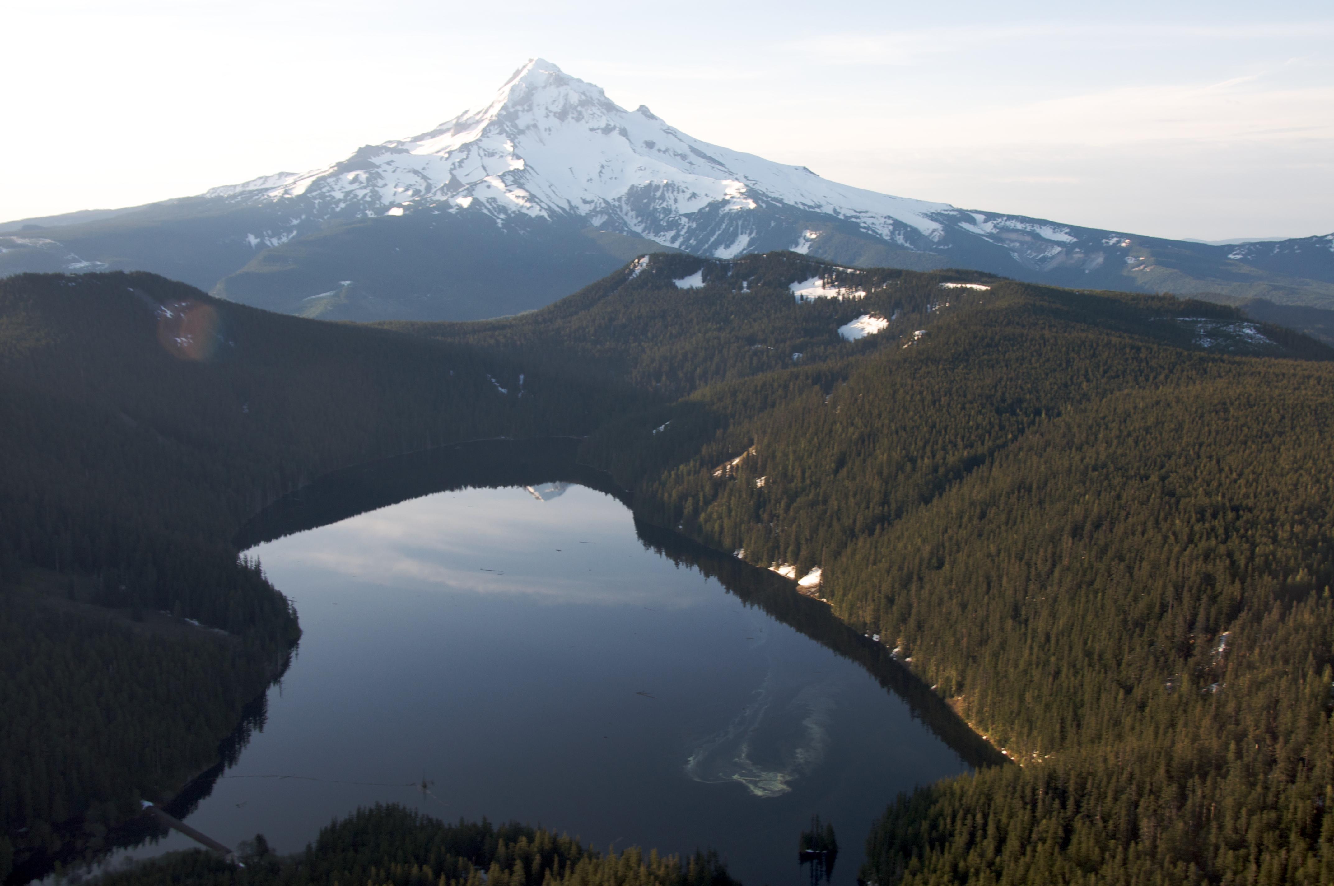 Bull Run Lake, a lake west of Mount Hood, in both Clackamas County and Multnomah County, Oregon, United States